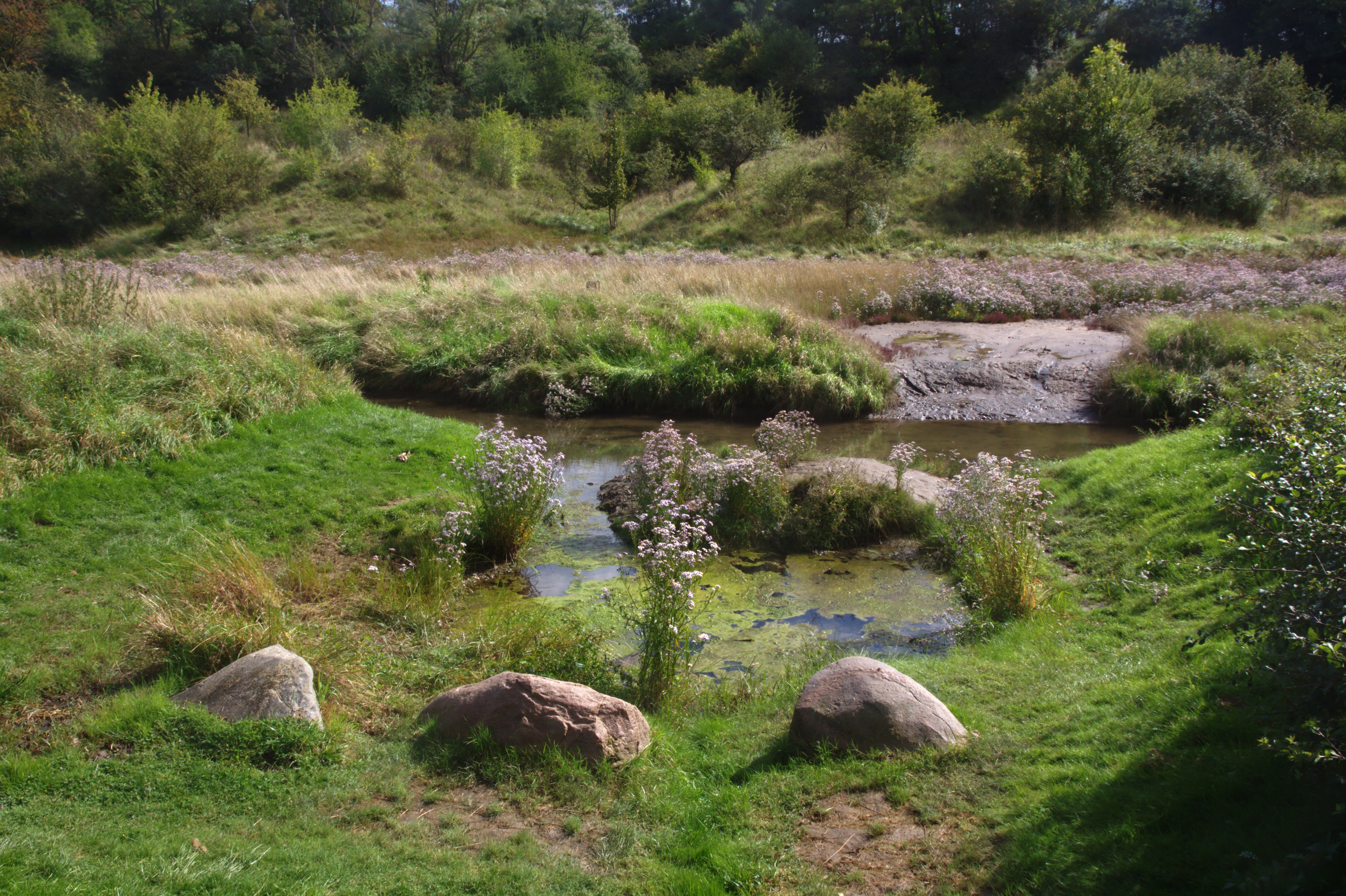 Brine spring in Sülldorf, Sülzetal, Germany Salzquelle in Sülldorf, Sülzetal